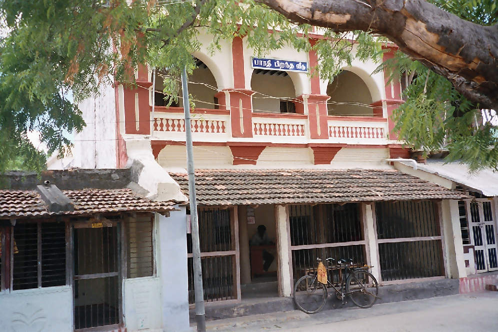 This is the place where Subramanya Bharathy(a Tamil poet) was born and this is his house in Ettayapuram, a small village, Tamil Nadu